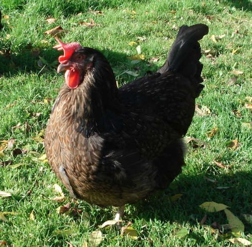 Dorking chicken breed